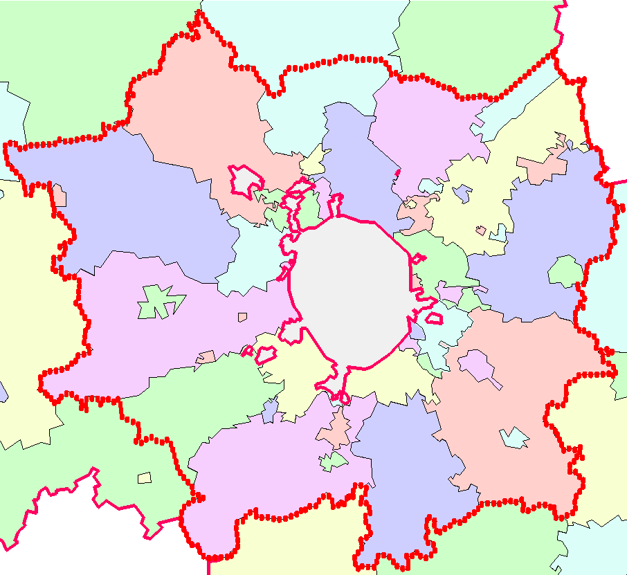 Moscow suburban zone boundaries in comparision to the rayon/urban okrug level divisions